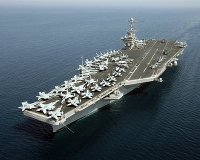 The Nimitz-class nuclear-powered supercarrier USS John C. Stennis is seen Friday, May 11, 2007. Currently deployed to the Persian Gulf, the carrier welcomed Vice President Dick Cheney for a classified briefing and rally for the troops.